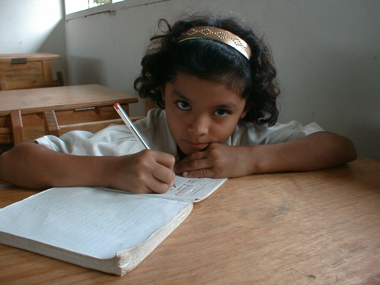 Pensive female student in new class room provided by the ' Village' project. Camera Info: OLYMPUS SR83 Digital F-stop 2.8 Exposure 1/59 Create date: 1999:09:02 16:09:25 Contact creator at - Page also was a link called "San Ramon, Choluteca Honduras: 1999 first ' Village'" to access the full WEB collection.